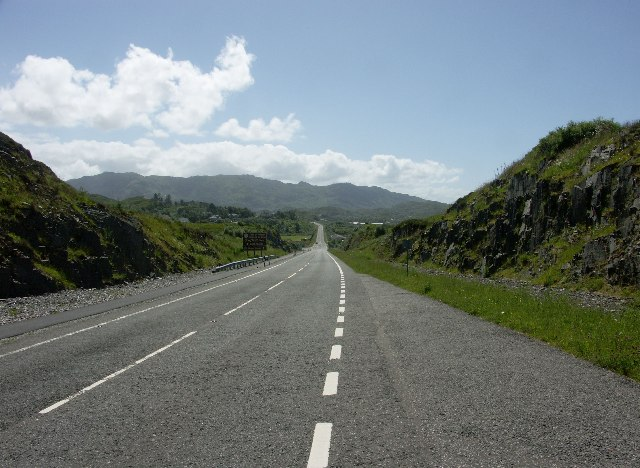 A830 near Morar.